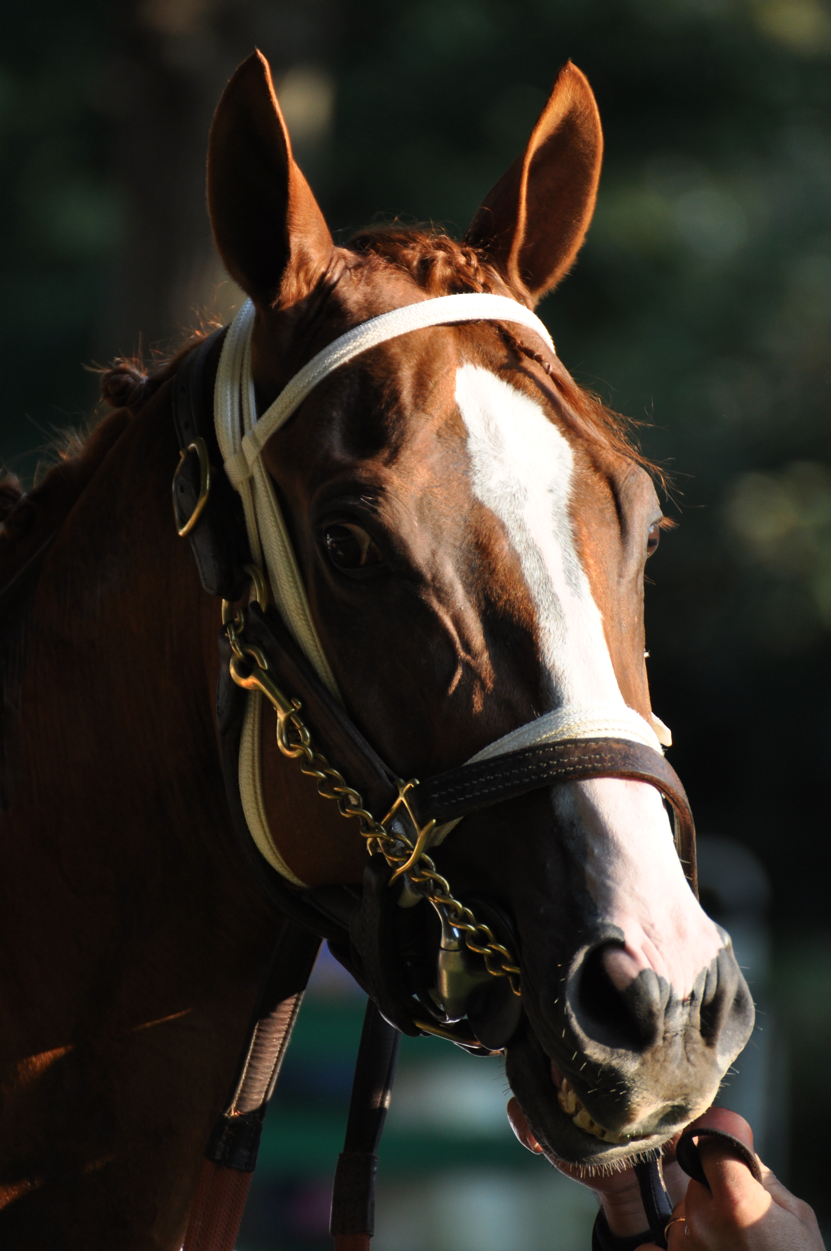 Chance and a Half, Posing